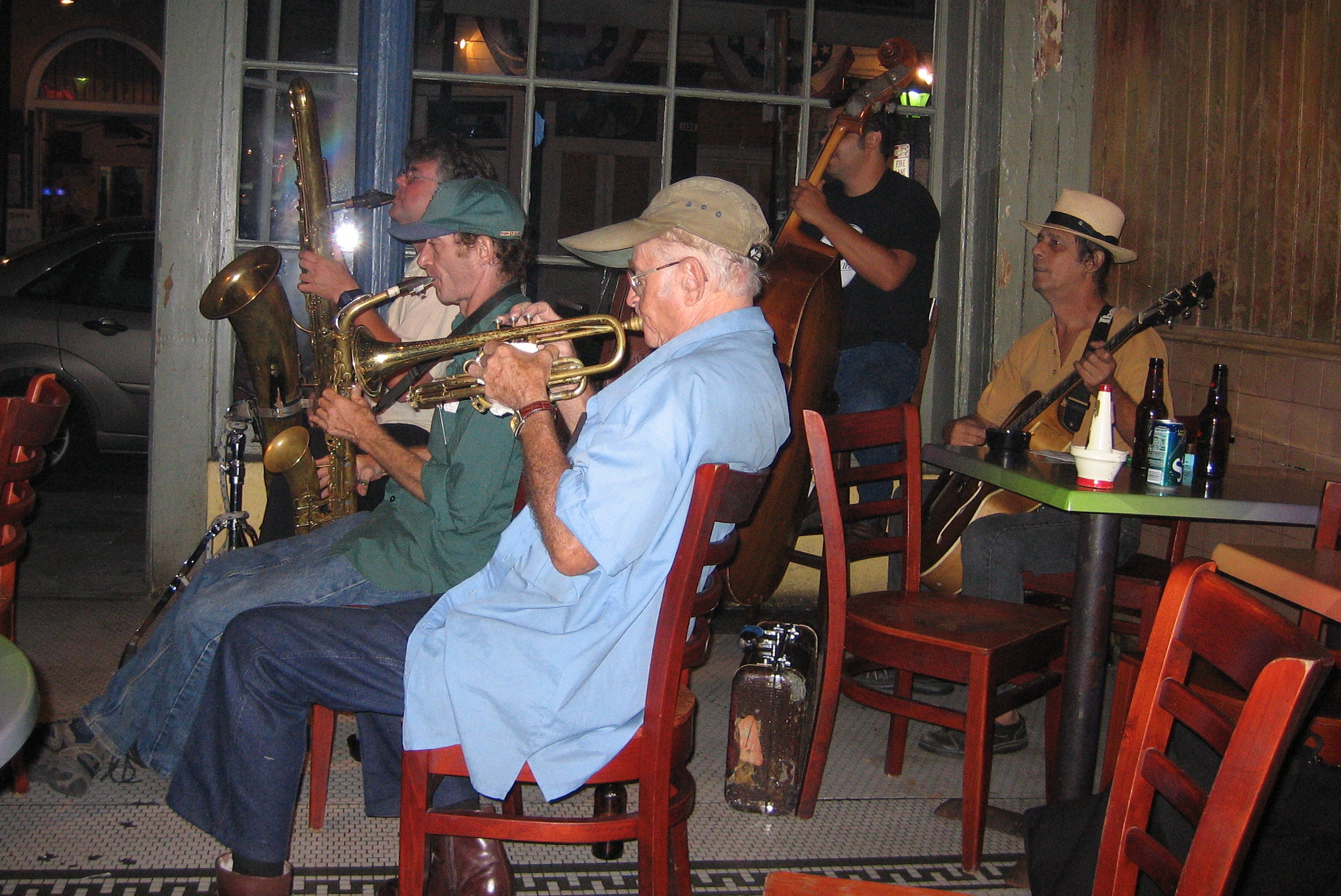 Jack Fine & the Jazz Vipers play at Angeli Restaurant on Decatur Street in the French Quarter of New Orleans, one of the first places to reopen after Hurricane Katrina Photo by Infrogmation, 11 October 2005